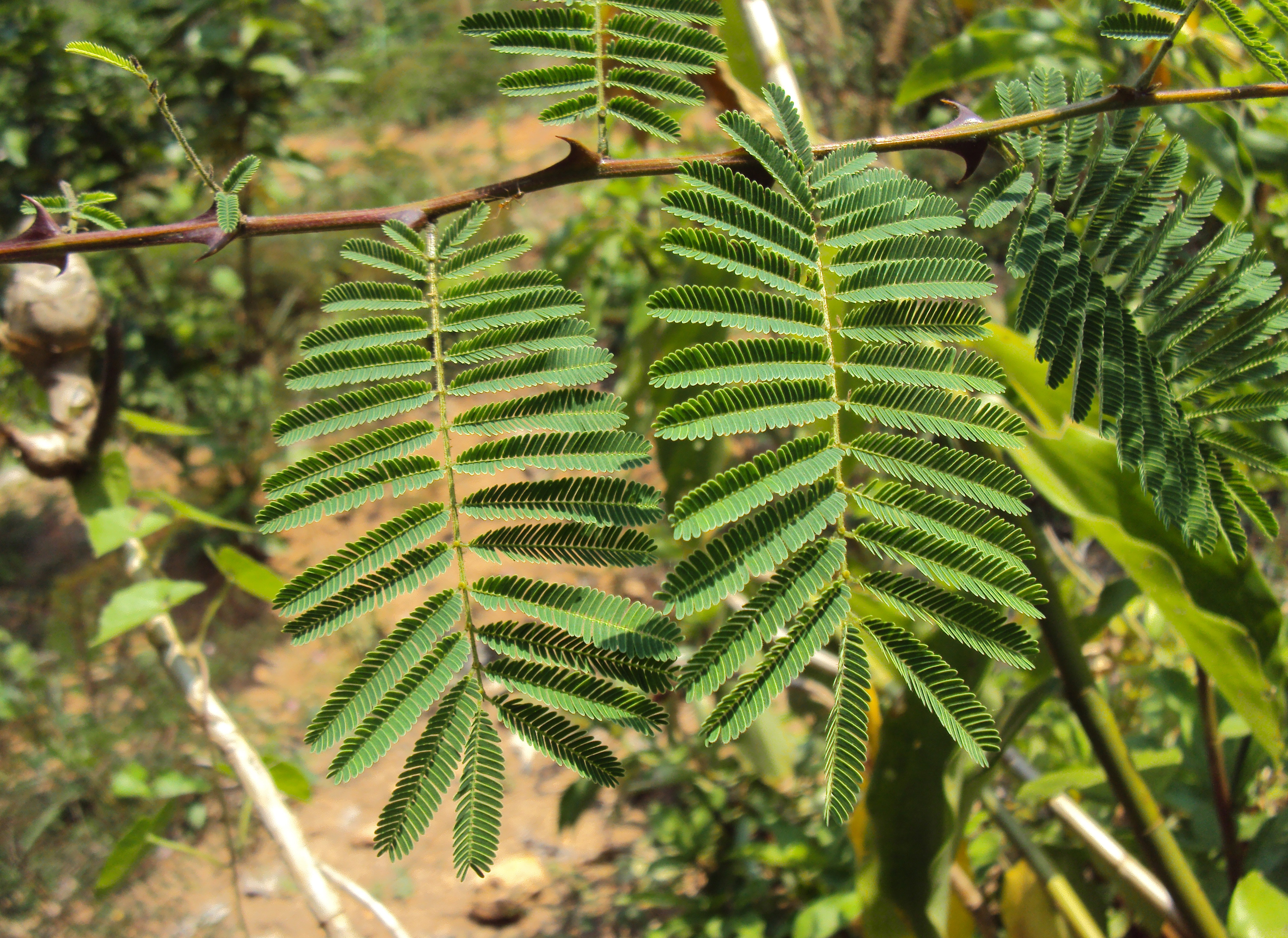 Acacia catechu